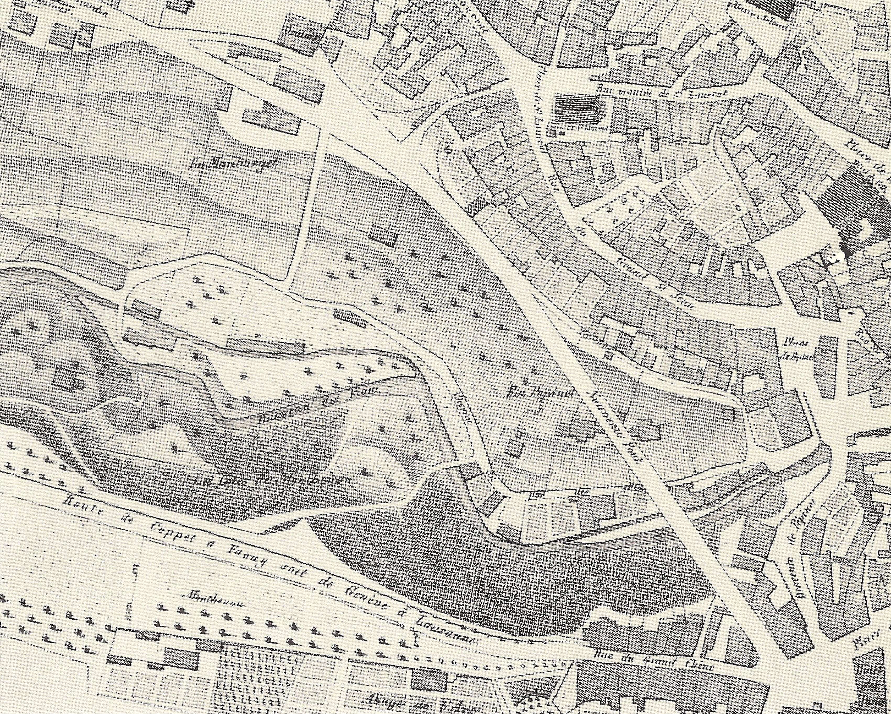 Flon's valley at Lausanne. Engraving : Berney's map